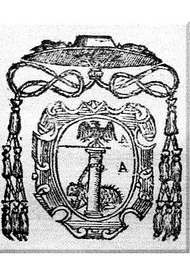 Coat of arms of Cardinal Giuliano Cesarini, iuniore